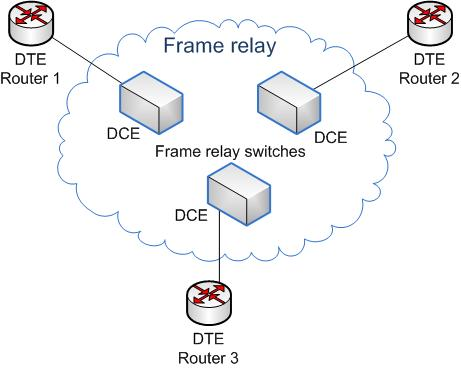 Basic network diagram of a frame relay network, drawn manually using MS Visio